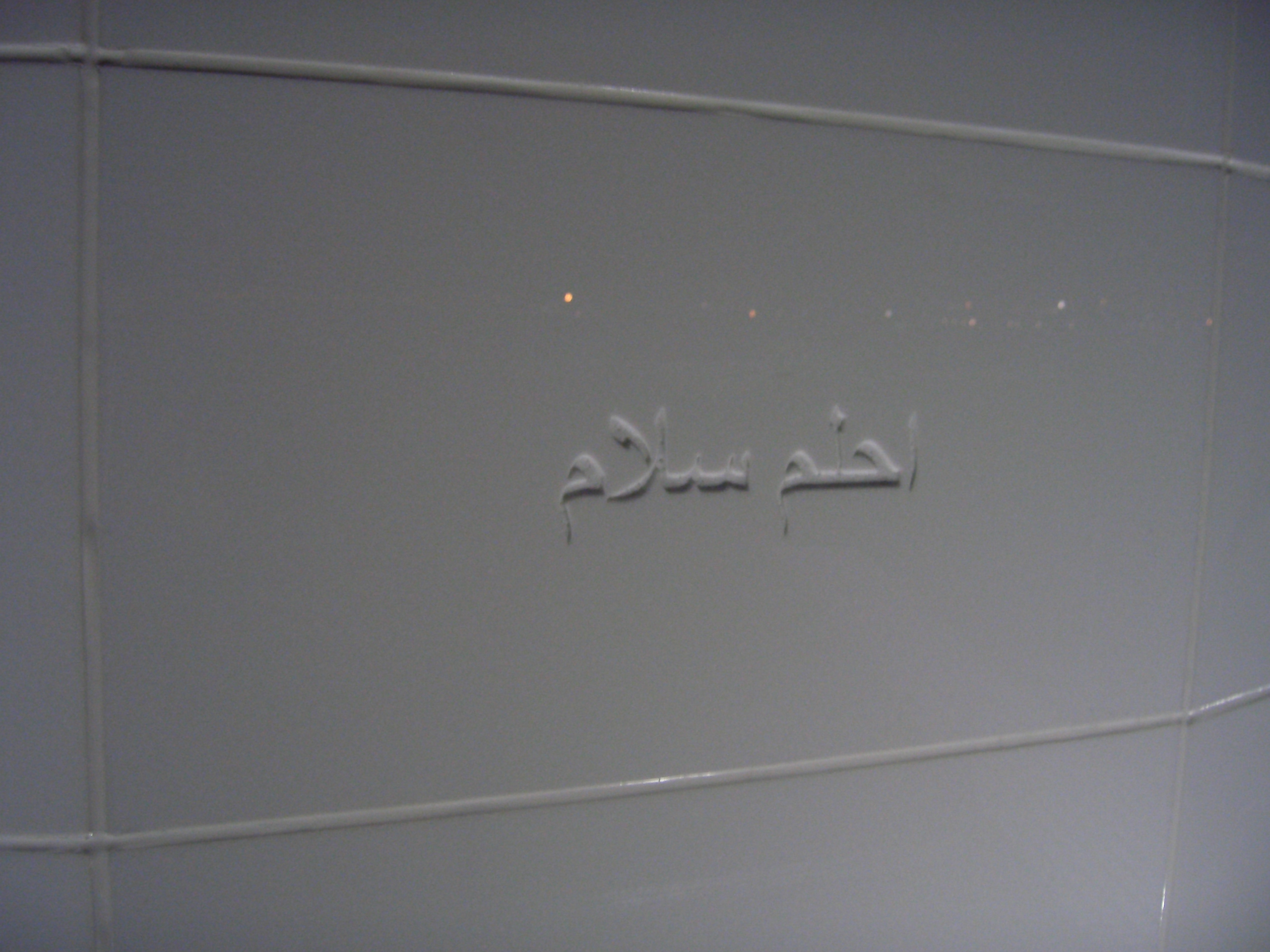 One of 25 languages that the words "Imagine Peace" is written on the Imagine Peace Tower in Iceland